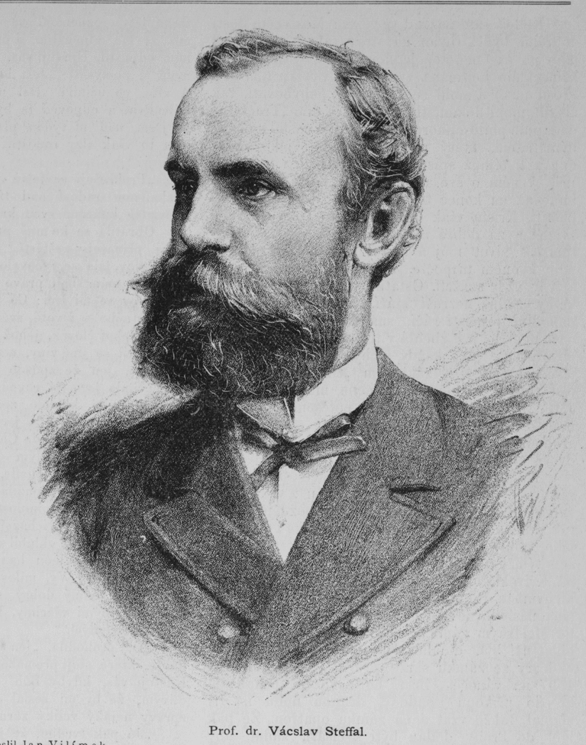 Portrait of Václav Steffal (1841-1894), Czech professor of medicine